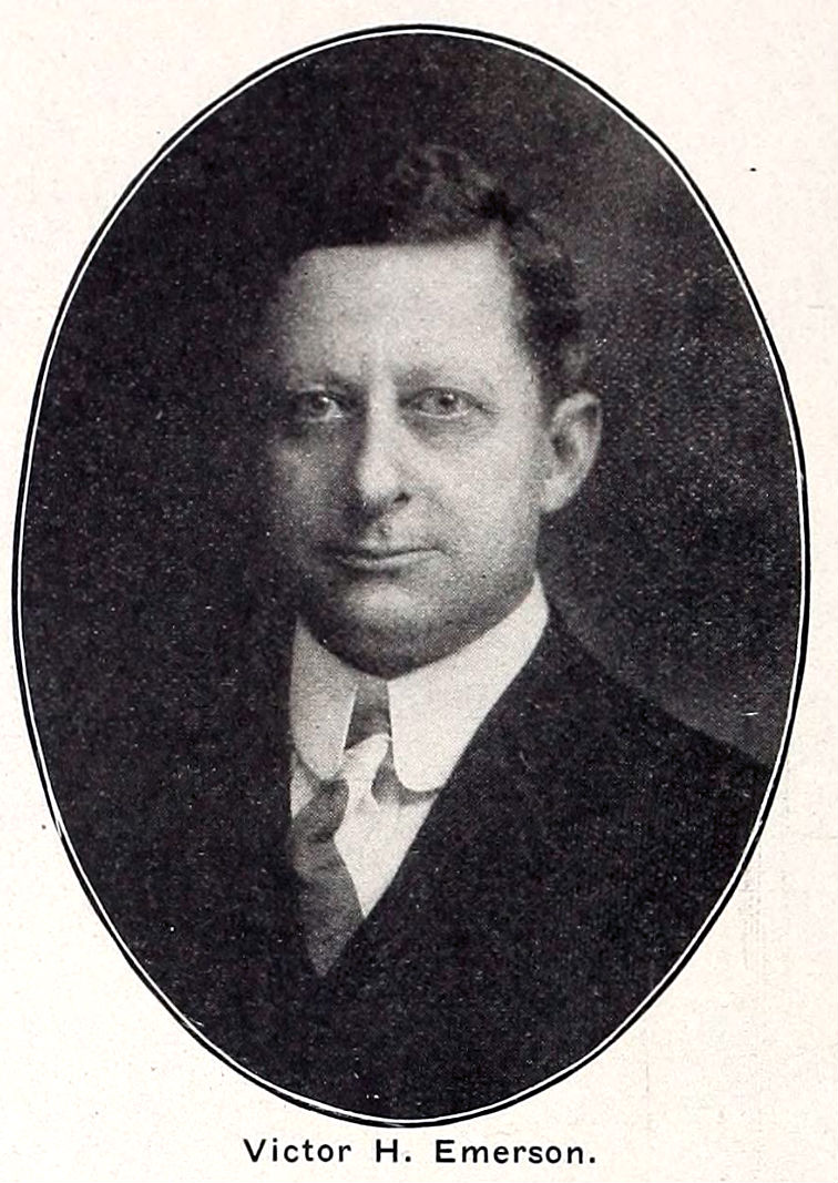 Portrait of record producer and executive Victor Hugo Emerson ca. 1912.